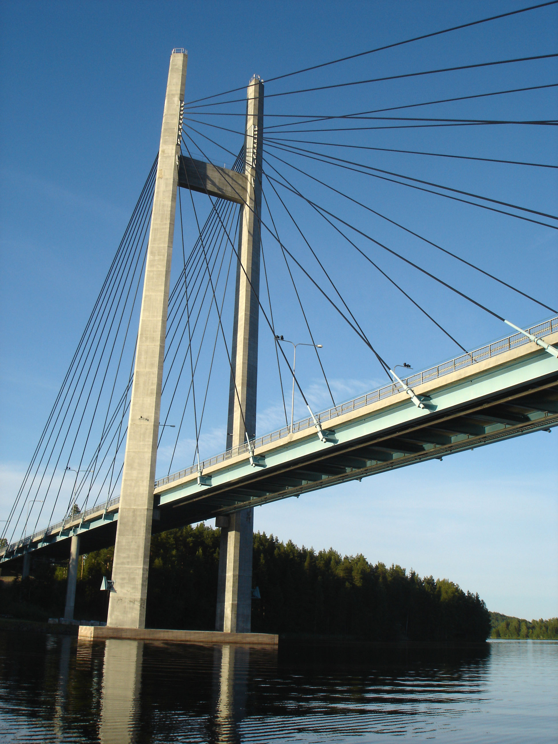 The Kärkistensalmi bridge located in Korpilahti, Finland